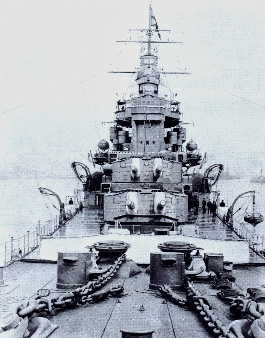 Picture of the nose of Japanese heavy cruiser Myōkō, 1931.